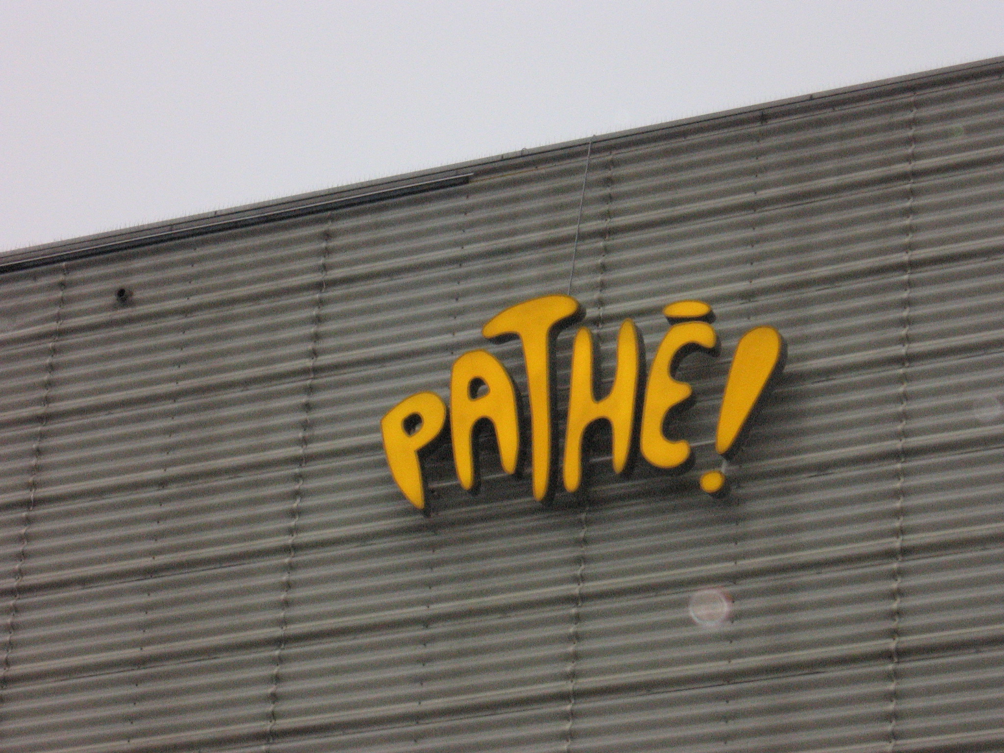 Pathe, Rotterdam